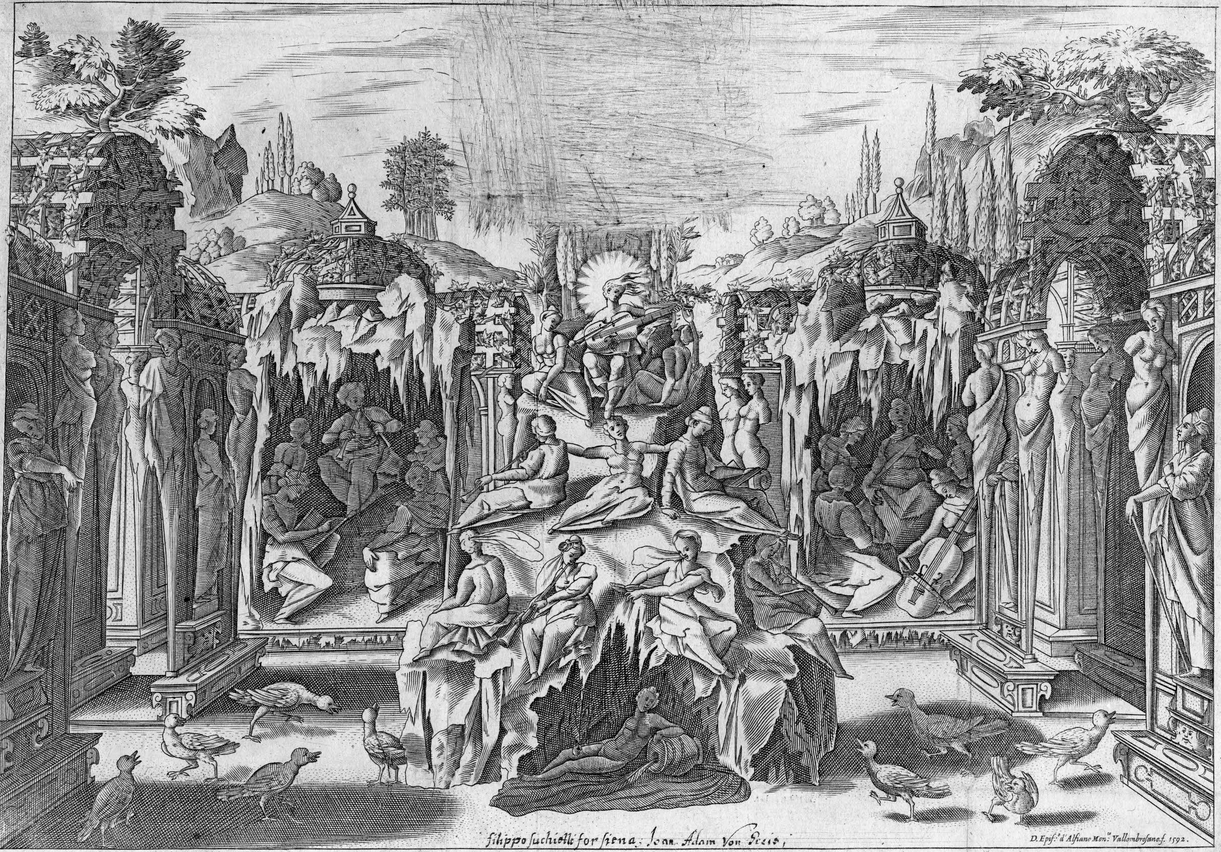 La pellegrina 1589 - Intermedio 2 - La gara fra Muse e Pieridi